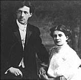 Aimee Semple McPherson (1910 photo, public domain)